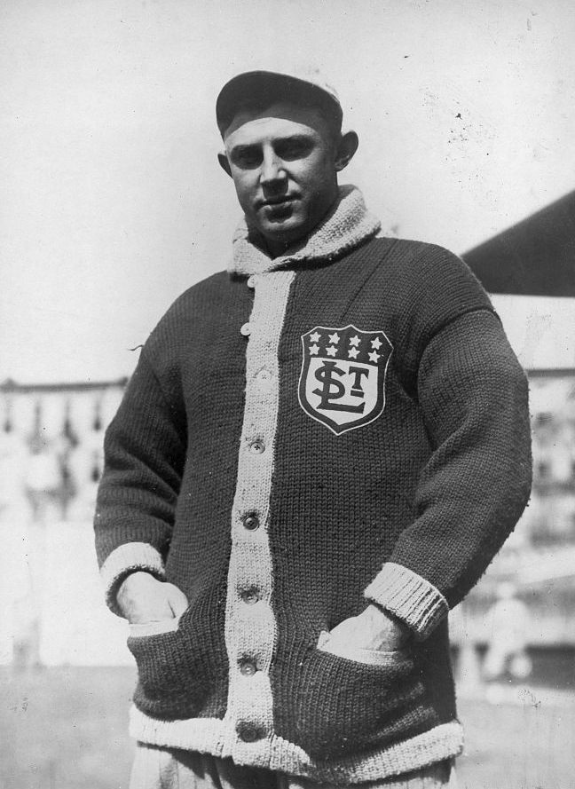 James Otis "Doc" Crandall, St. Louis Terriers (Federal League) baseball player, half-length portrait, facing front, wearing sweater with "St.L" emblem